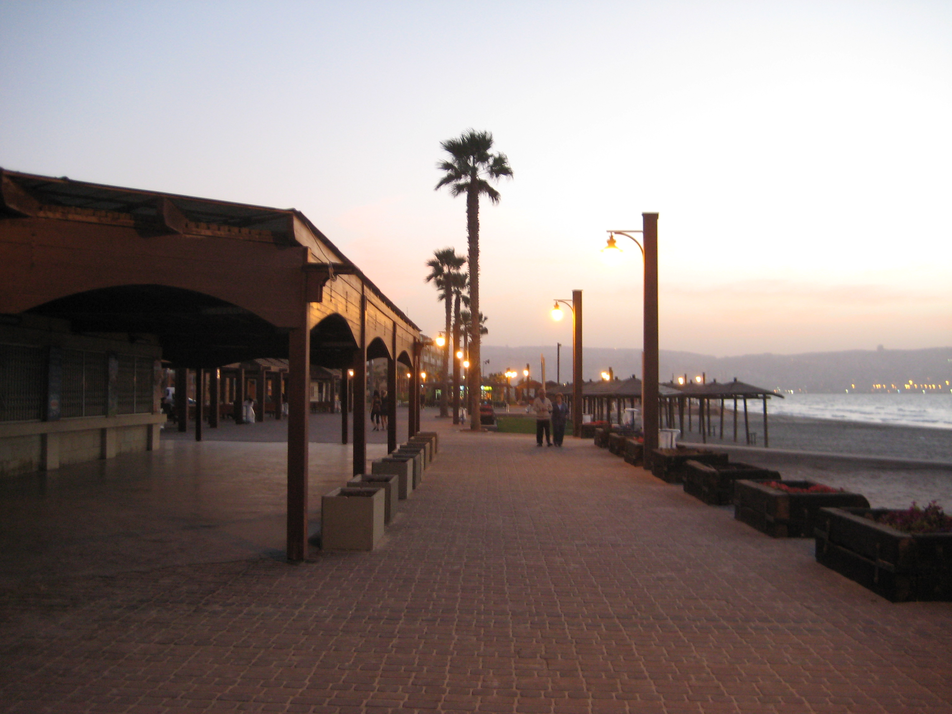 Geography of Israel